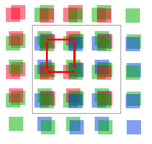 color co-site 2x2 sampling